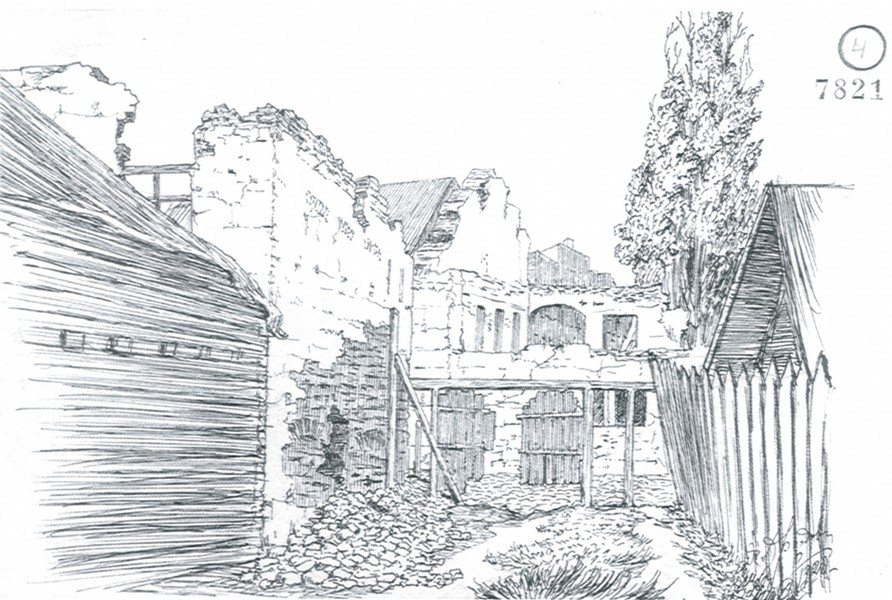 Ruins of Miensk Castle, Jazep Drazdovič